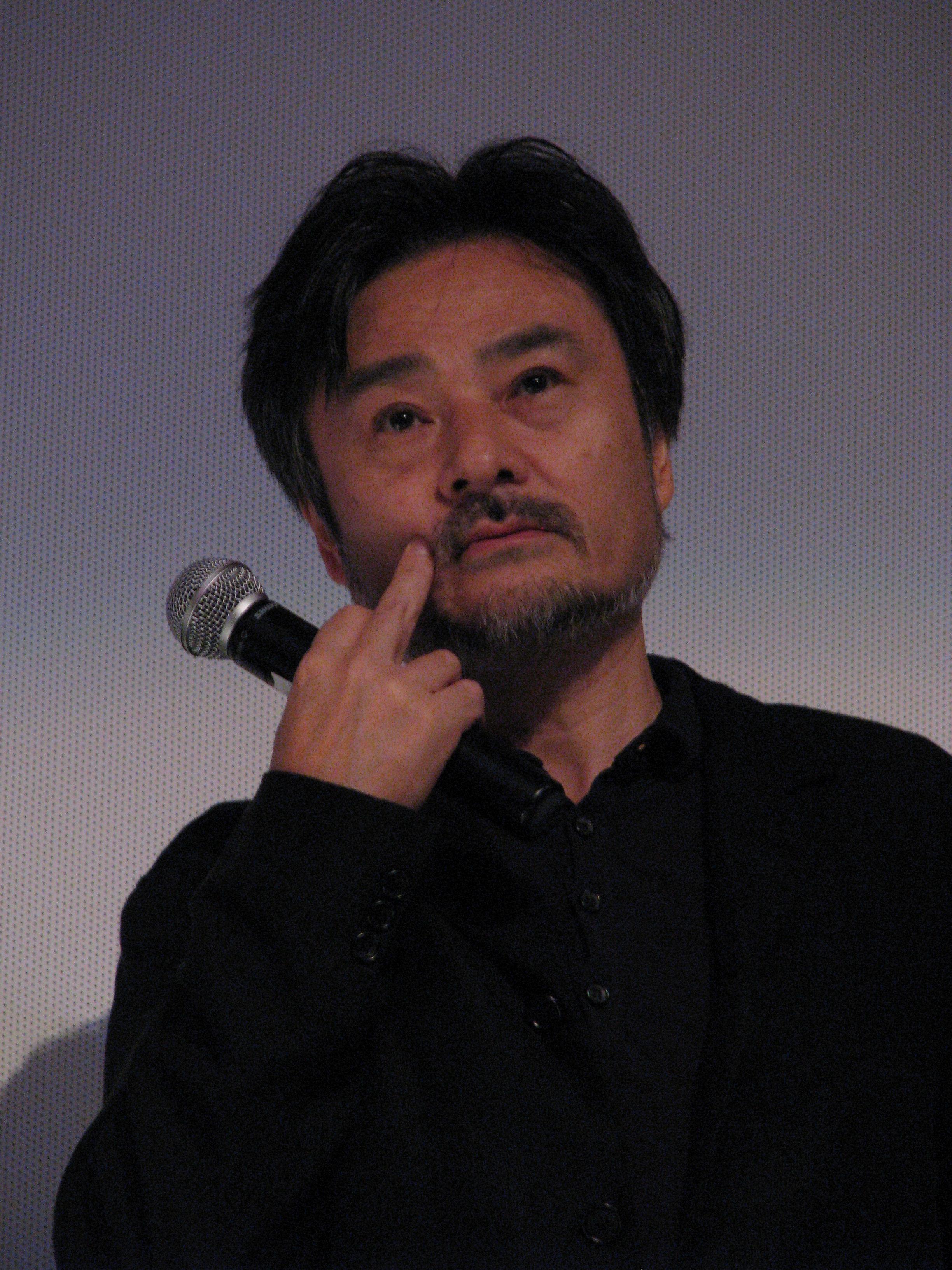 Director Kurosawa Kiyoshi contemplates a question from the audience at the "Tokyo Sonata" Q&A.